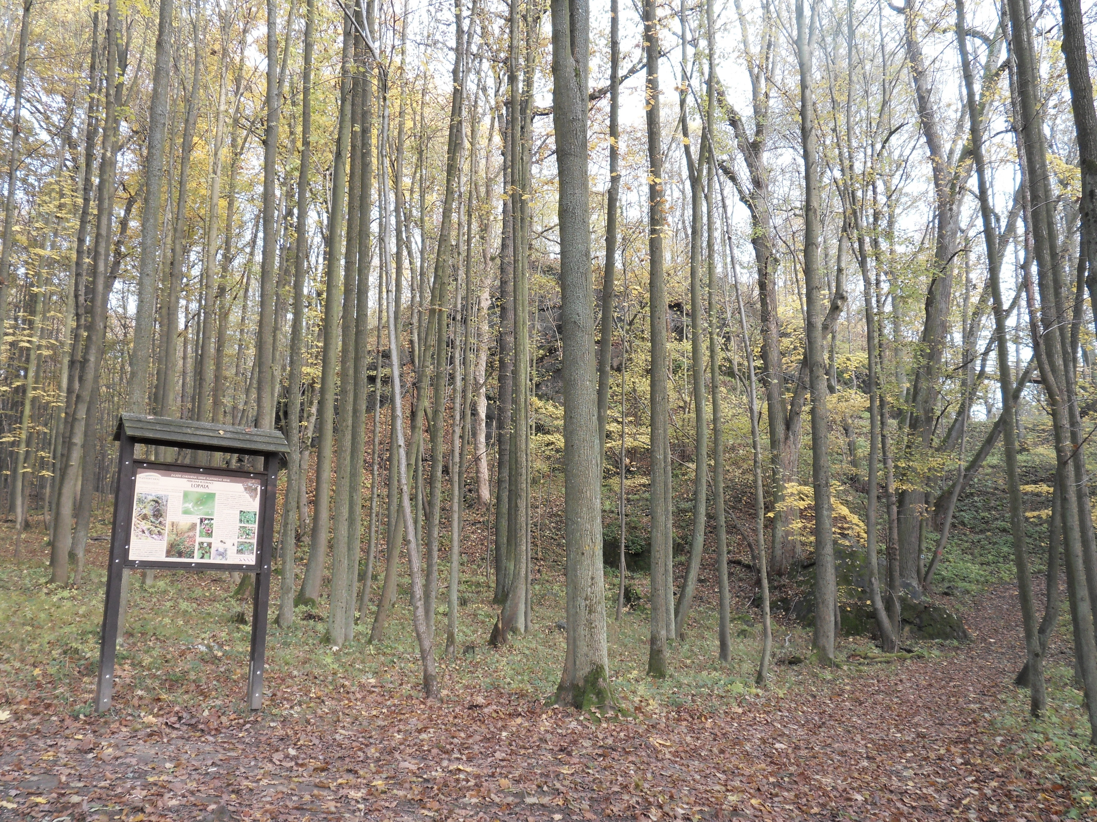 Castle Lopata in the Nature reserve Lopata, Plzeň-South District, Czech Republic